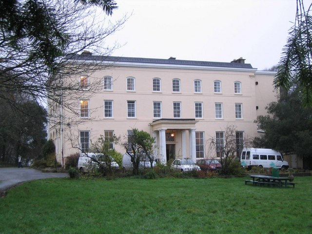 Orielton Field Centre. This is Orielton Field Centre, a Georgian manor house dating from 1743 owned by the Field Studies Council.